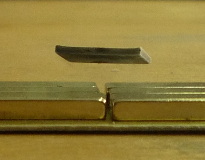 High-temperature superconductor BSCCO piece (Bi-2223 and traces of Bi-2212) levitating in magnetic field of permanent neodymium magnets.